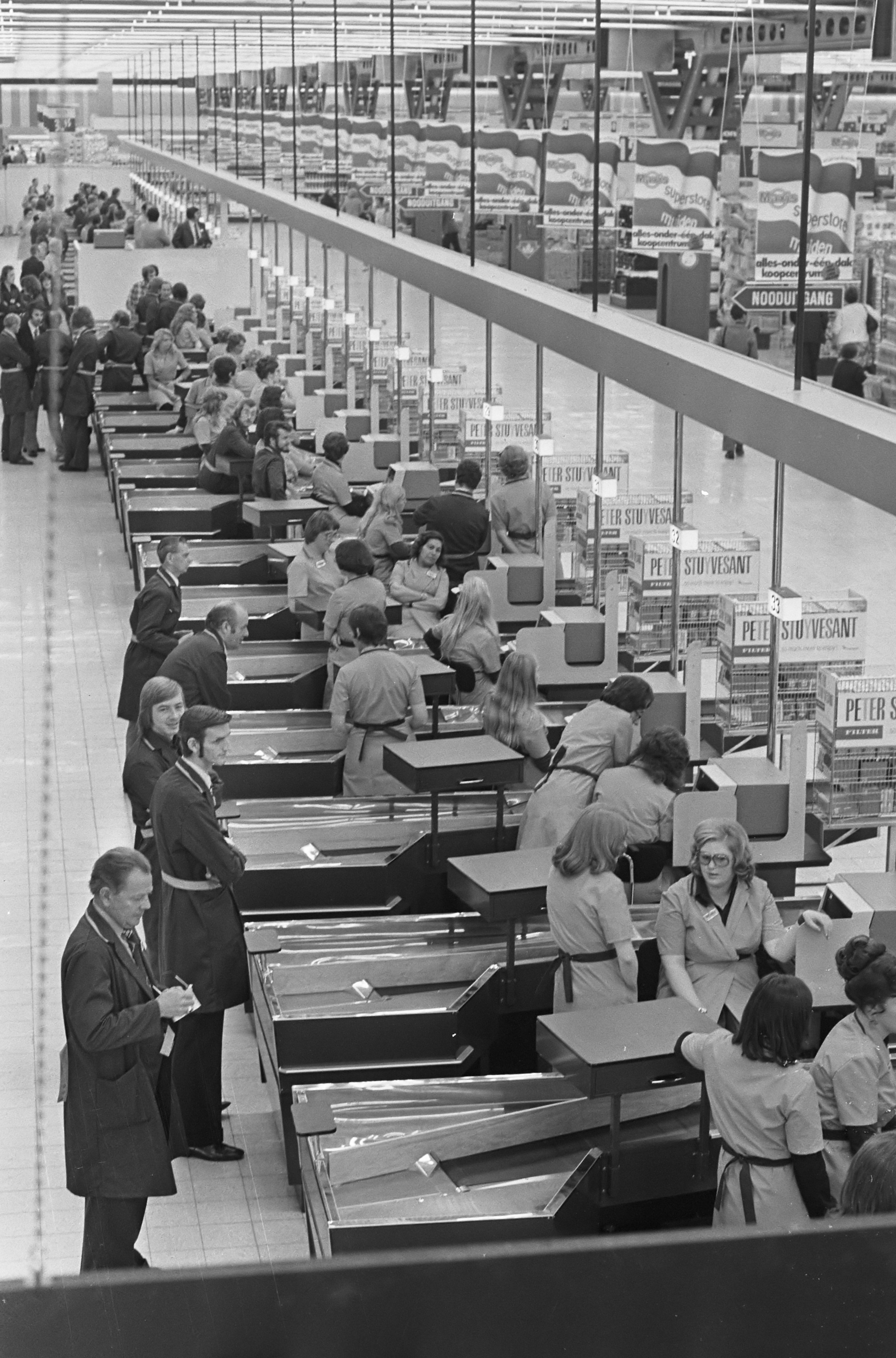 Cash registers in Maxis superstore. The Netherlands, Diemen / Muiden, 1974. Hebt u meer informatie over deze foto, laat het ons weten. Laat een reactie achter (als u ingelogd bent bij Flickr) of stuur een mailtje naar: Please help us gain more knowledge on the content of our collection by simply adding a comment with information. If you do not wish to log in, you can write an e-mail to: Meer foto’s van het Nationaal Archief zijn te vinden in de fotocollectie op gahetna.nl